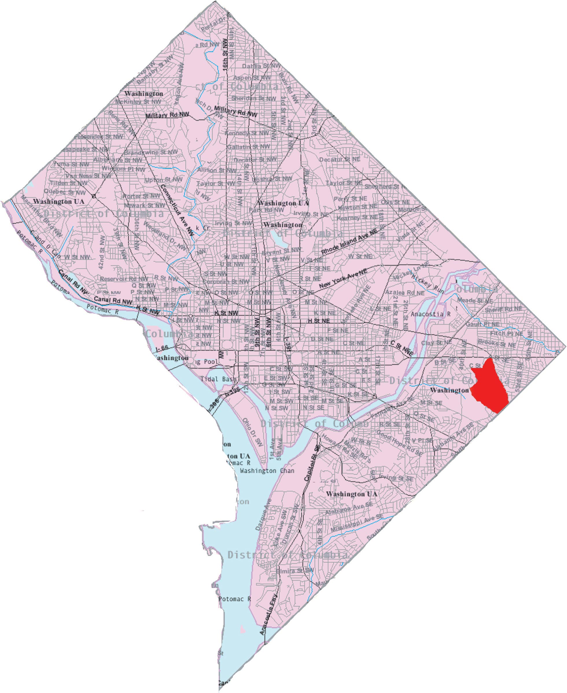 This image is a modified version of a self-generated reference map from the U.S. Census Bureau's American Factfinder at by Wikipedia user Msclguru.